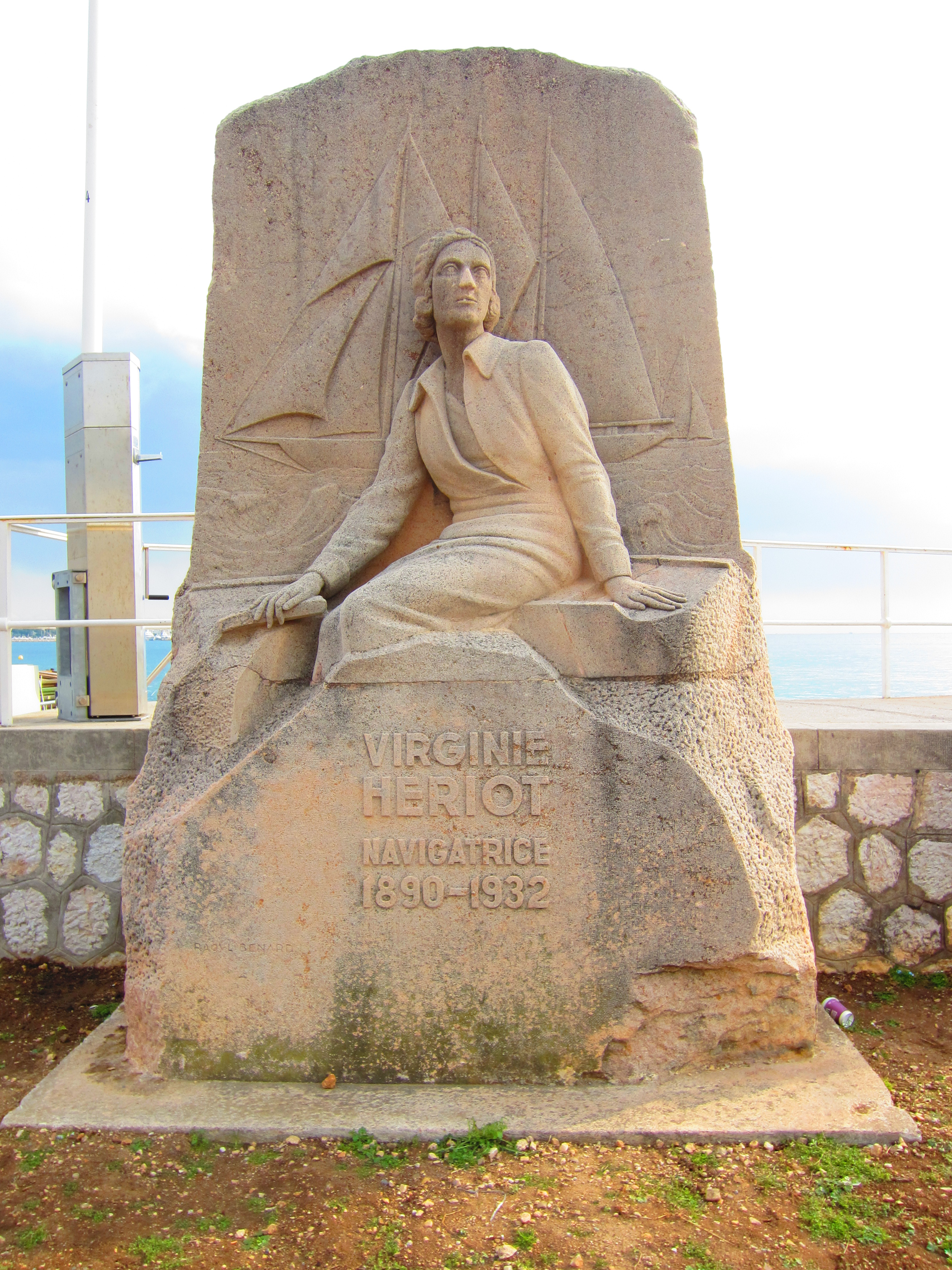 Virginie Hériot memorial, Cannes